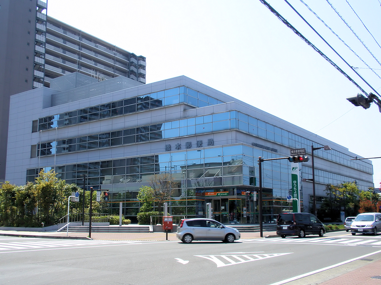 Hashimoto post office, Midori-ku, Sagamihara.